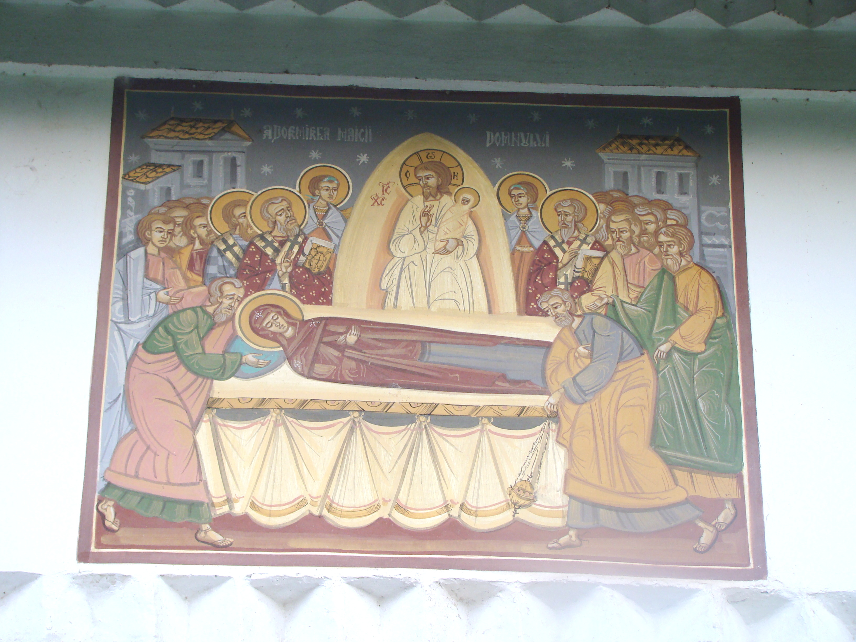 Church of the Dormition in Târgu Jiu, Gorj county, Romania